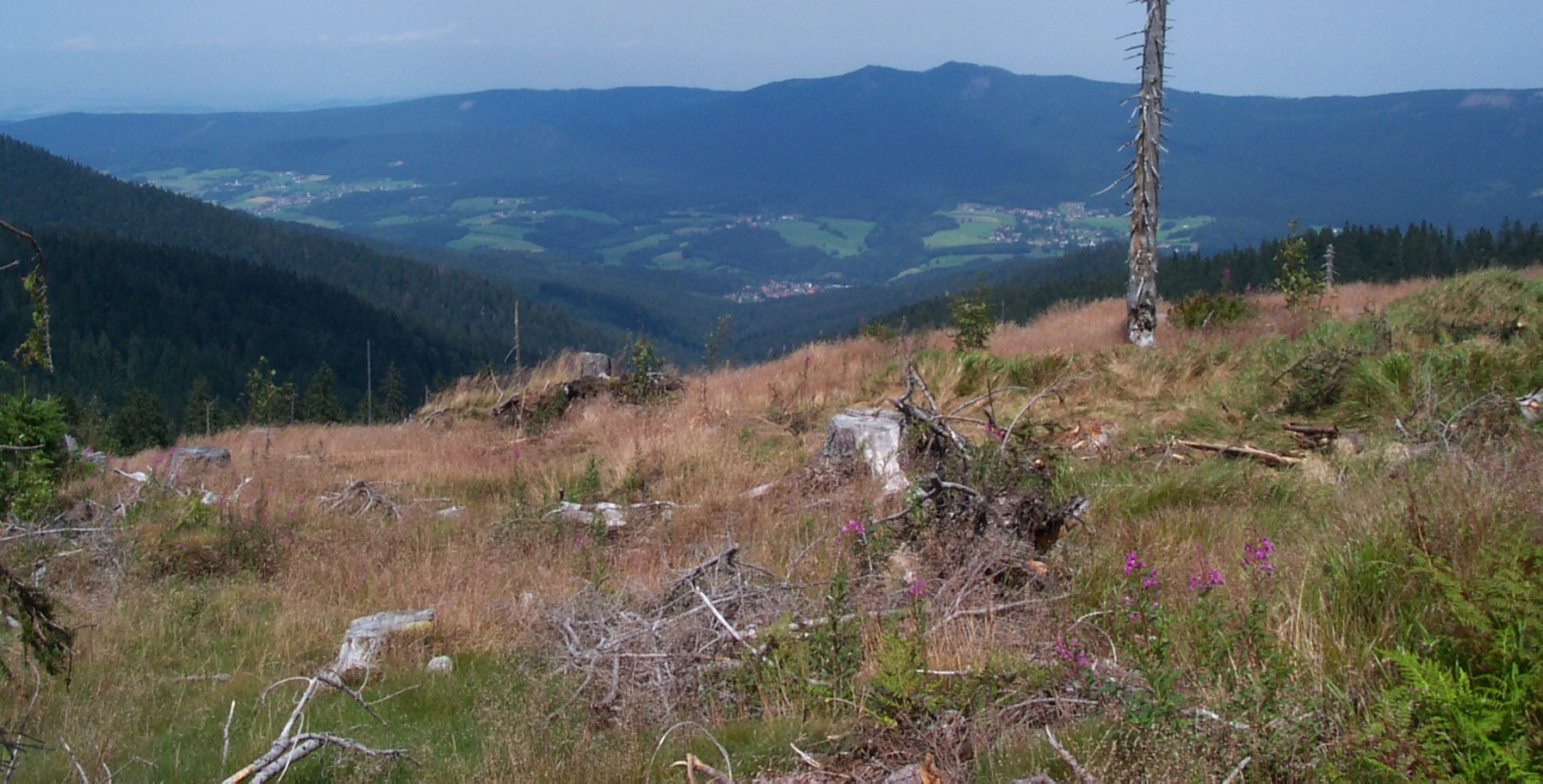 View from Enzian to Lamer Winkel and Osser